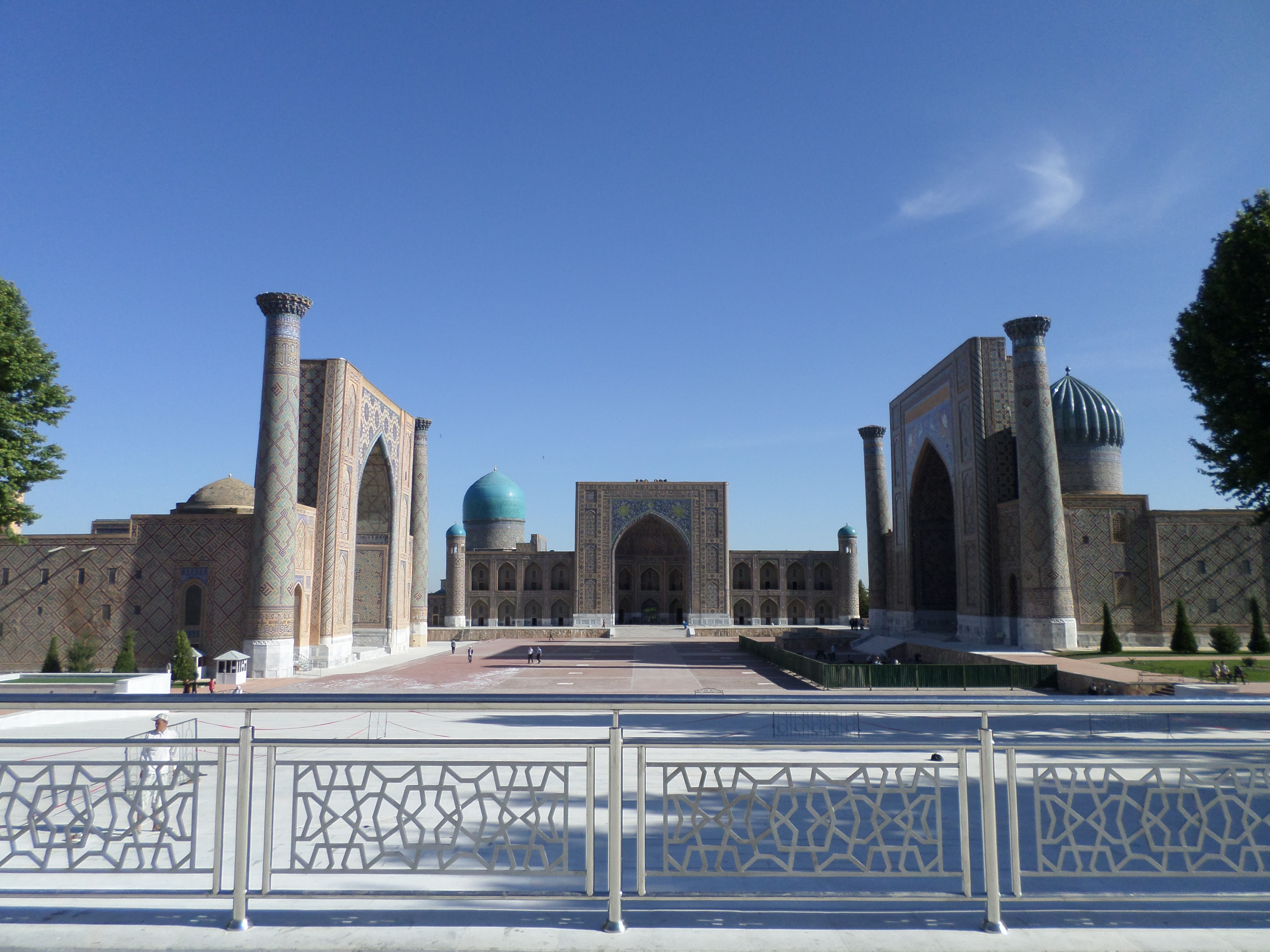 Registan Square after reconstruction carried out in march 2014